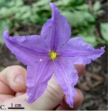 Flower of Solanum pseudosycophanta